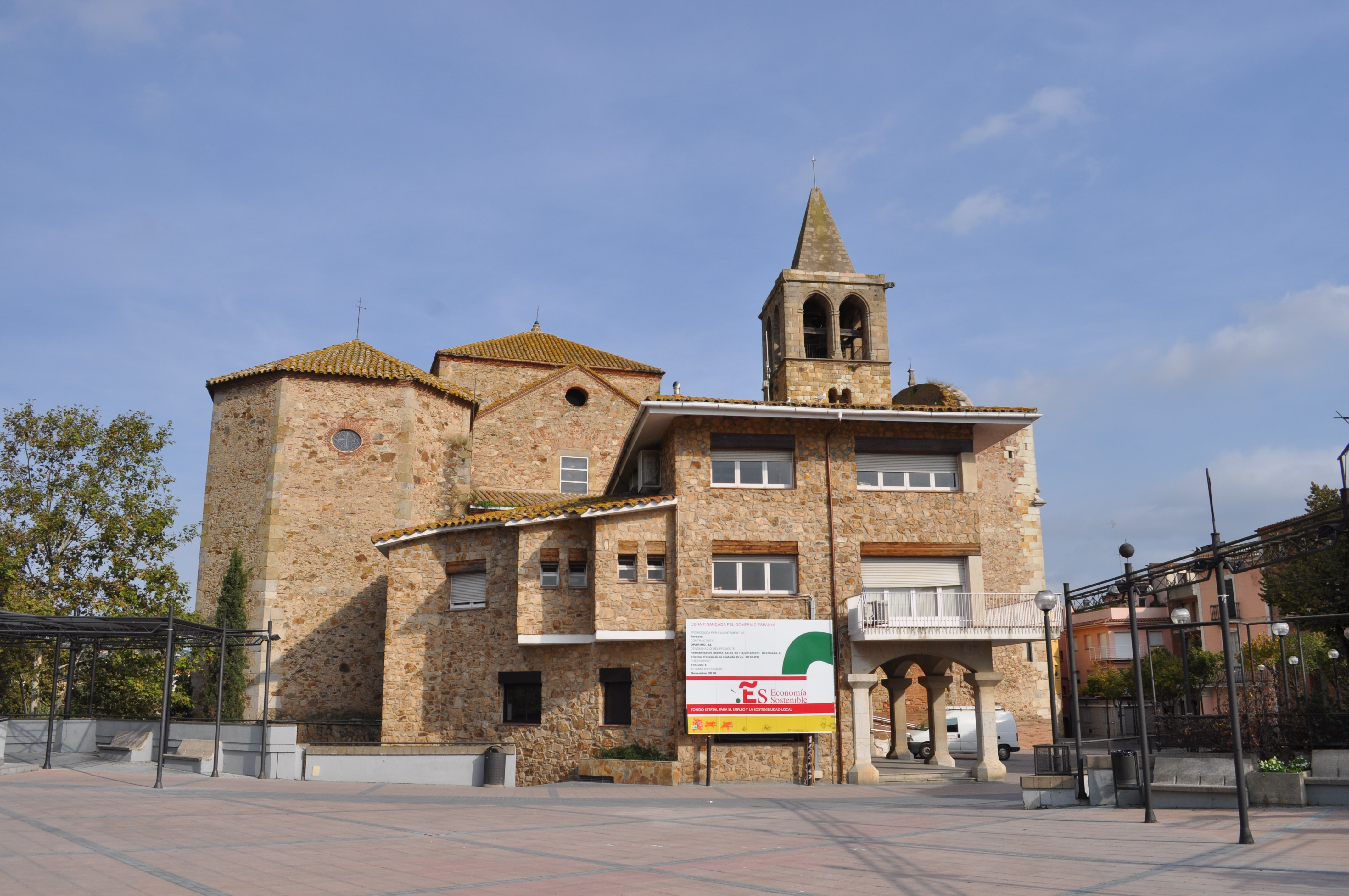 Church San Esteve in Tordera